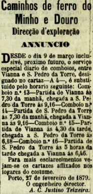 Advertisement of the Caminhos de Ferro do Minho e Douro (Minho and Douro Railways), informing the public about the new timetable of the trains between Viana do Castelo and São Pedro da Torre, in the Linha do Minho (Minho Railway), in Portugal. This image was published on the Diario Illustrado newspaper No. 2105, of 1st March 1879, and scanned by the Biblioteca Nacional de Portugal.